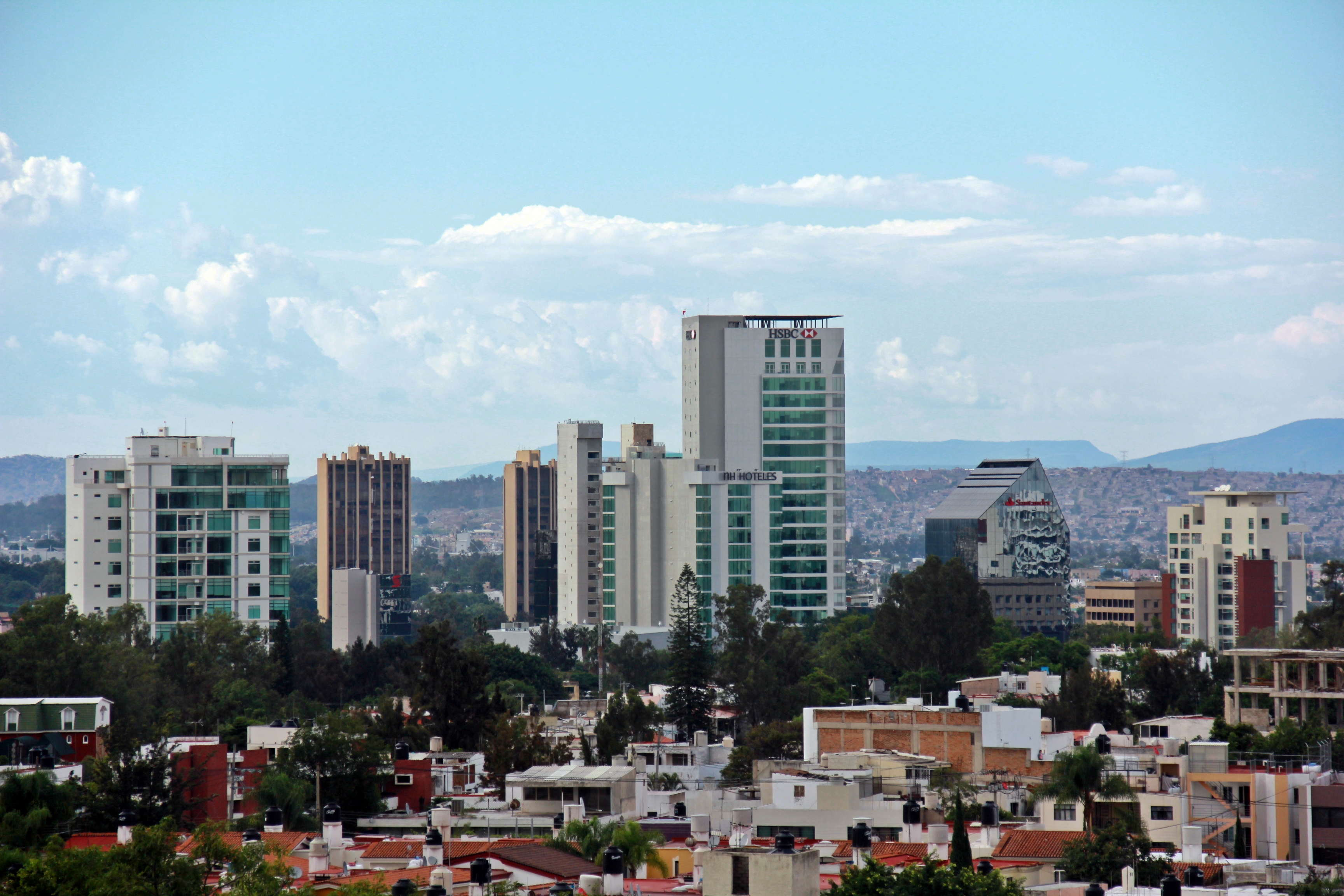 Skyline Guadalajara